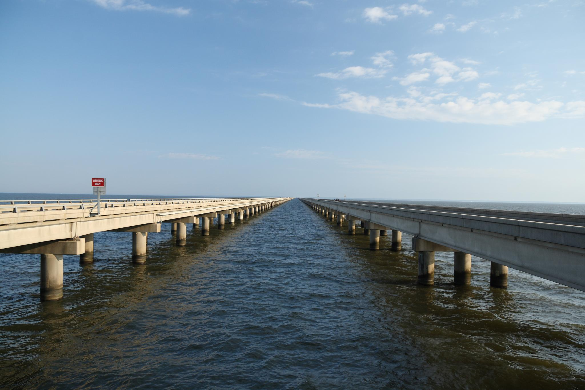 The Lake Pontchartrain Causeway is a set of two parallel bridges that span Lake Pontchartrain in southern Louisiana